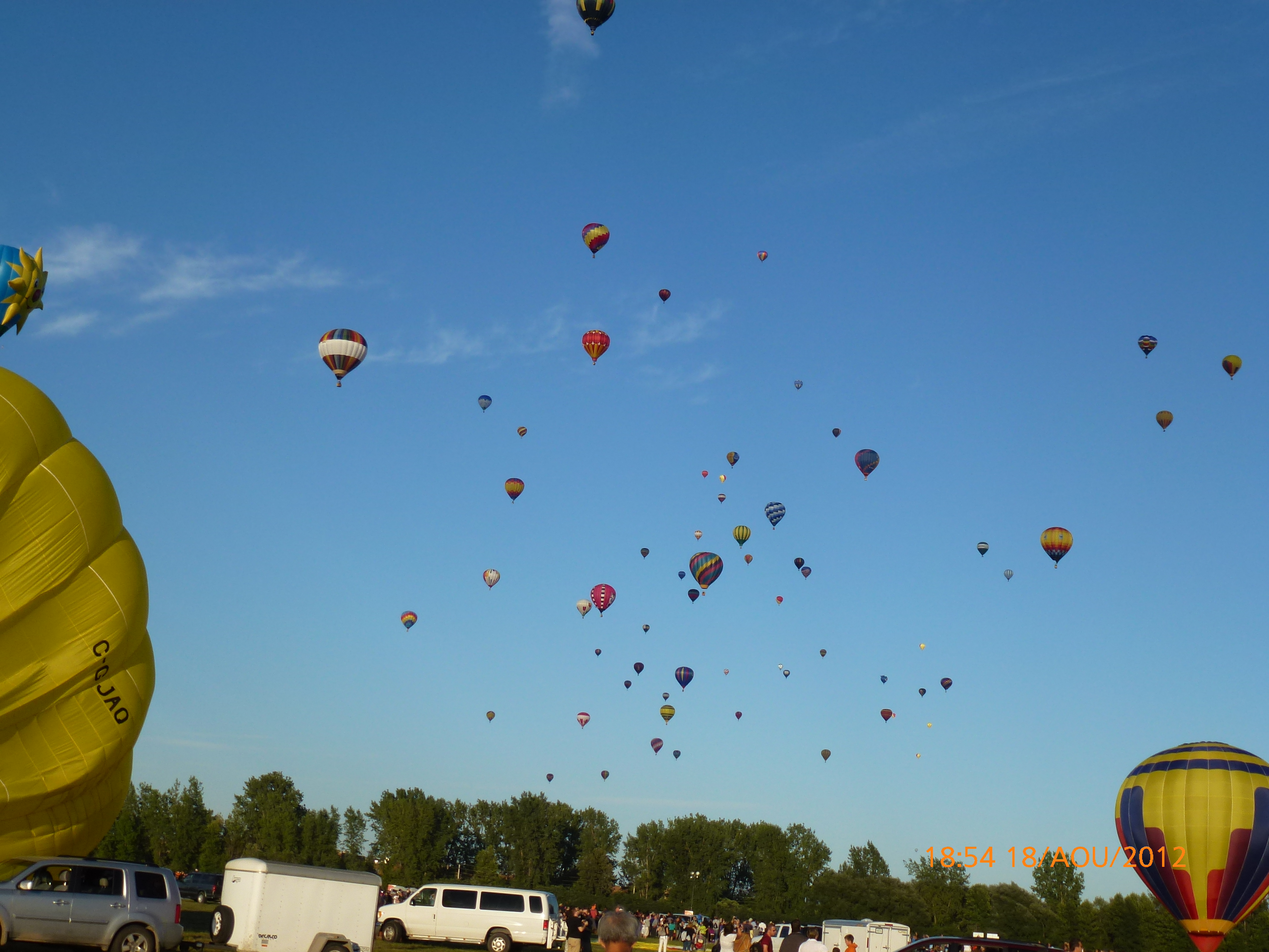 Balloons, Aéroport de Saint-Jean-sur-Richelieu